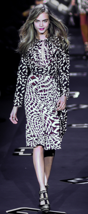 Diane von Furstenberg Fall Winter 2013